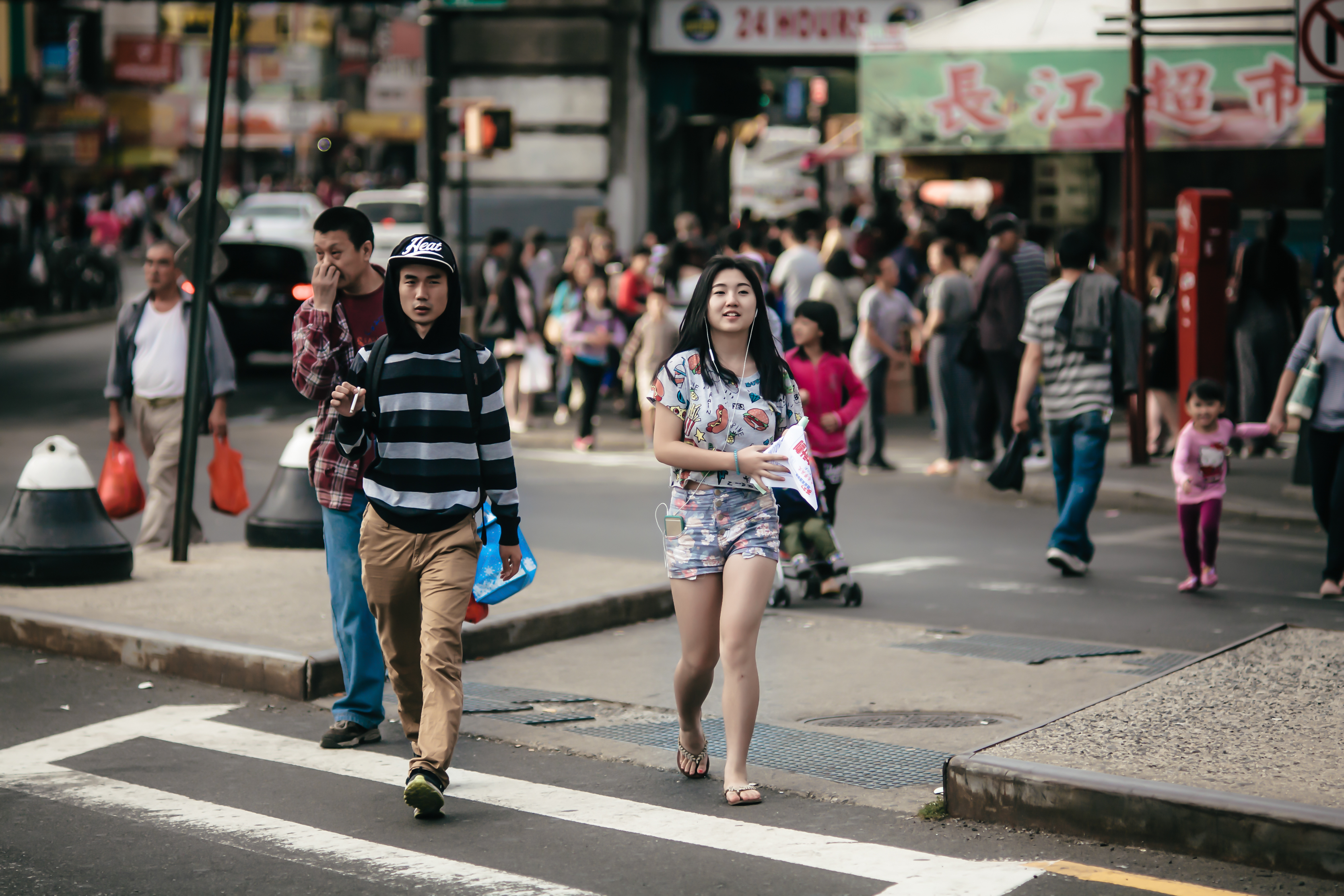 Flushing during the daytime, showing the extremely busy intersection of Kissena Boulevard, Main Street, and 41st Avenue. Previously published at